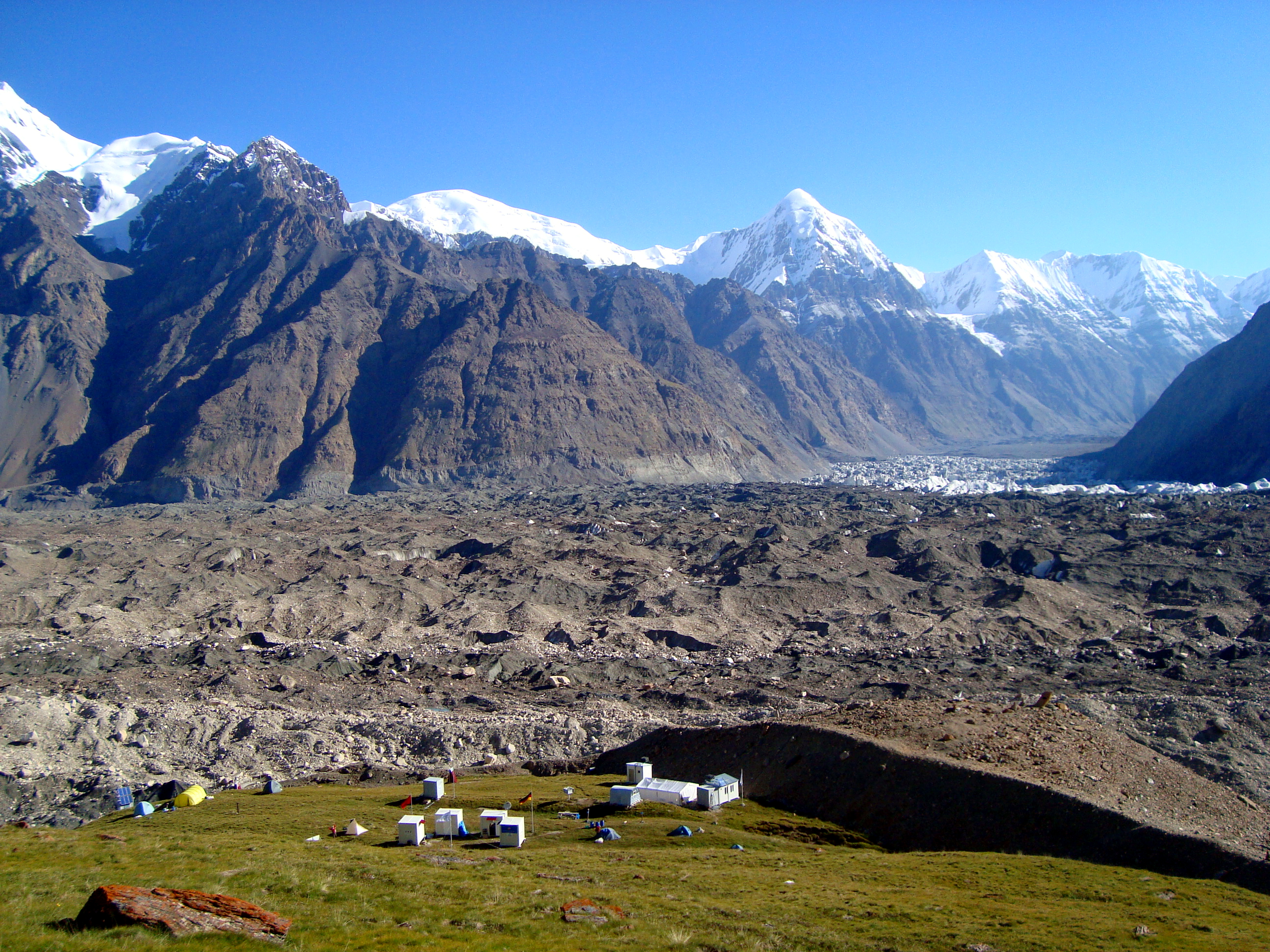 Merzbacher Station and Inylchek Glacier in central Tian Shan, Asia.